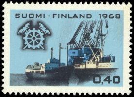 Finnish trade chamber 50 years in 1968